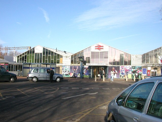 Northampton - Railway Station. The stretch of West Coast Mainline between Watford Junction and Rugby actually By-Passes Northampton.More for local services--Milton Keynes-Rugby-Coventry-Birmingham.